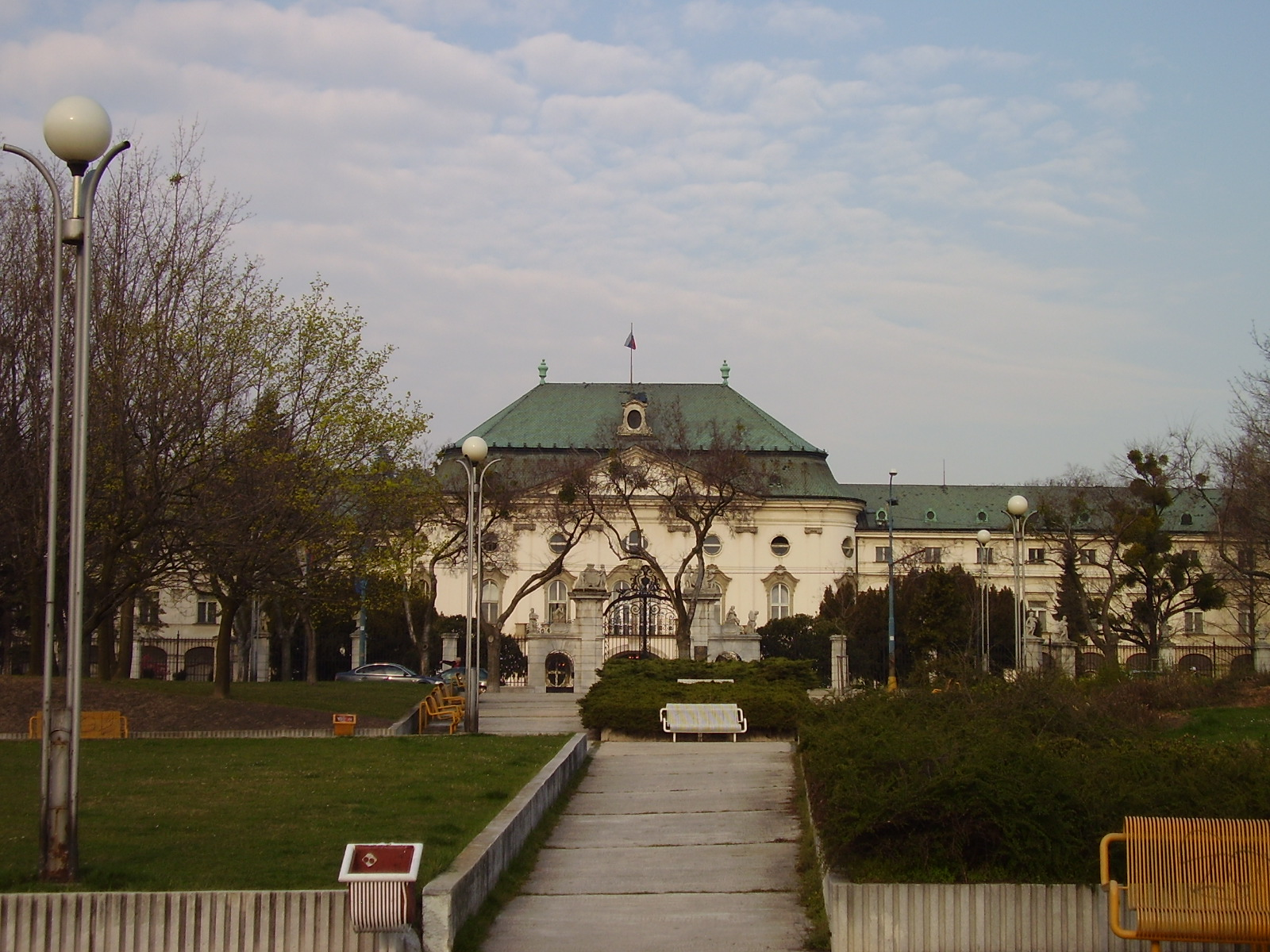 Summer Archbishop's Palace in Bratislava